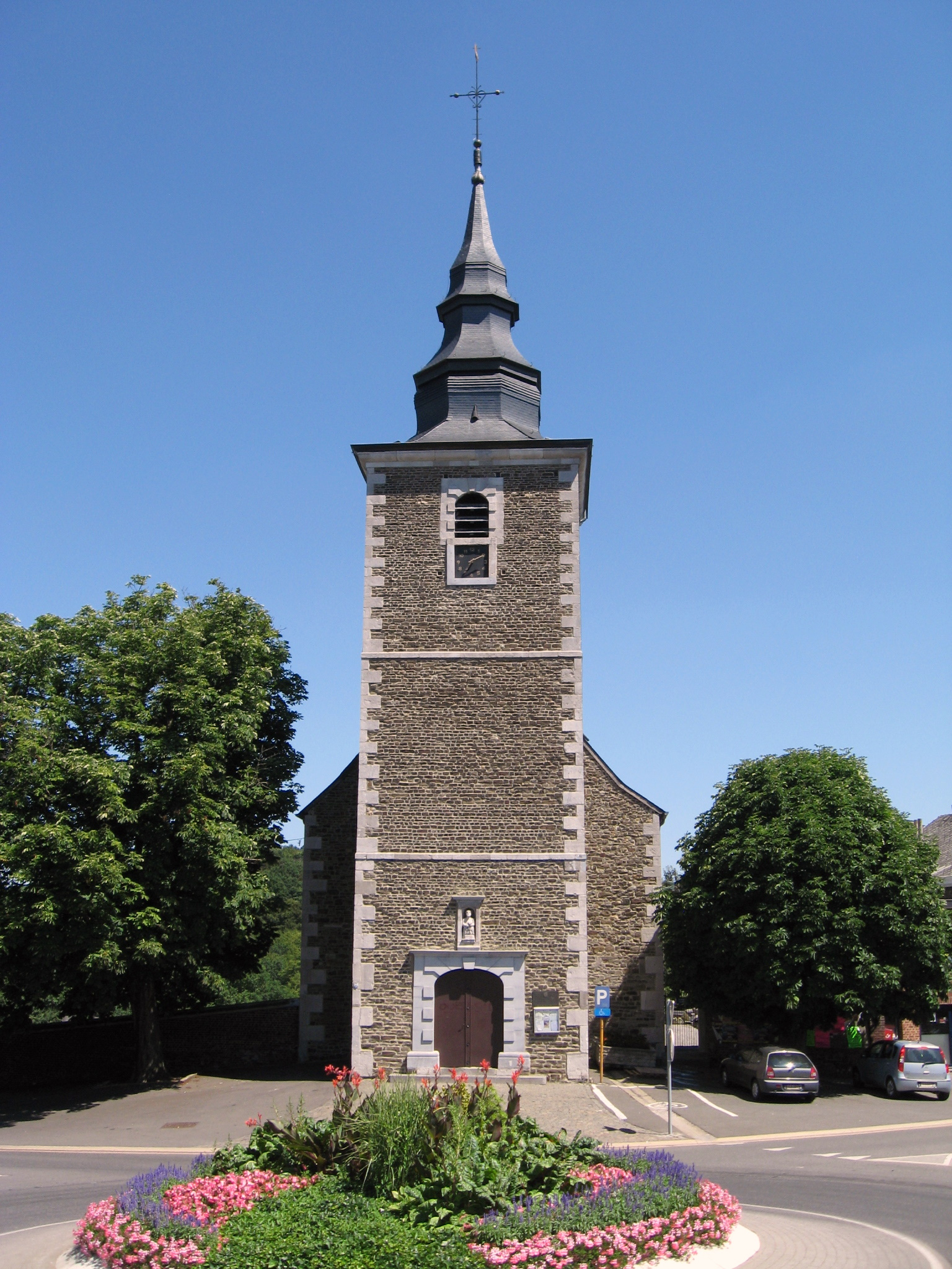 Church of Saint Peter in Saive, Blegny, Liège, Belgium